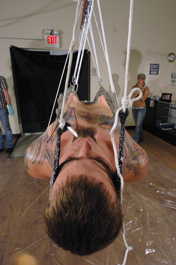 Put on that swing music," Shane Post, body modification artist at Wingnut Tattoo, says while prepping Josh Johnson for his suspension. Above, Johnson suspends, "coma"-style, by eight hooks that were strategically pierced through his flesh by Post. This was the second time Johnson was suspended by Post. Post has performed more than 200 suspensions and specializes in piercings and brandings.